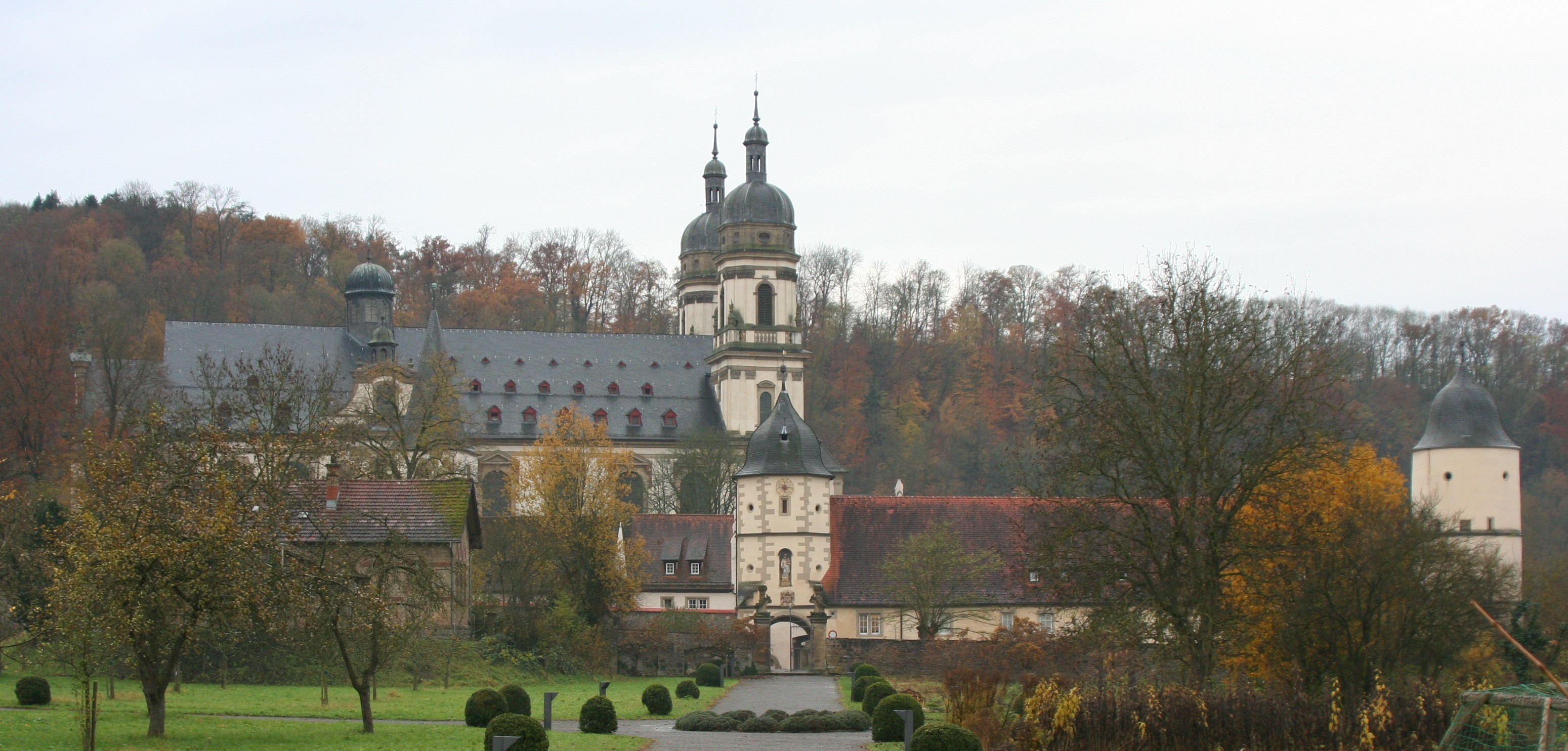 The former Schöntal monastery as seen from the abbey garden in the North